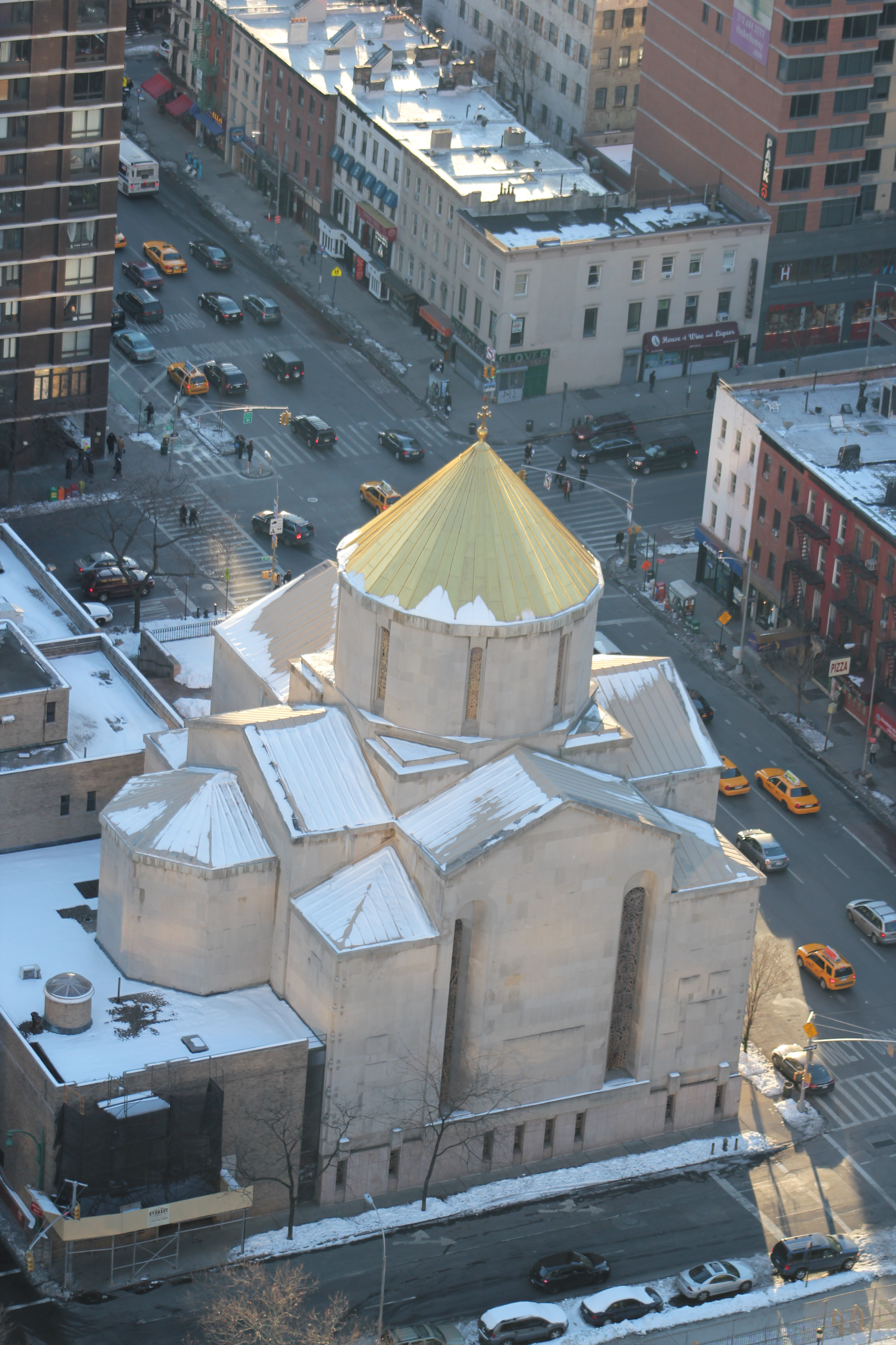 St. Vartan Cathedral